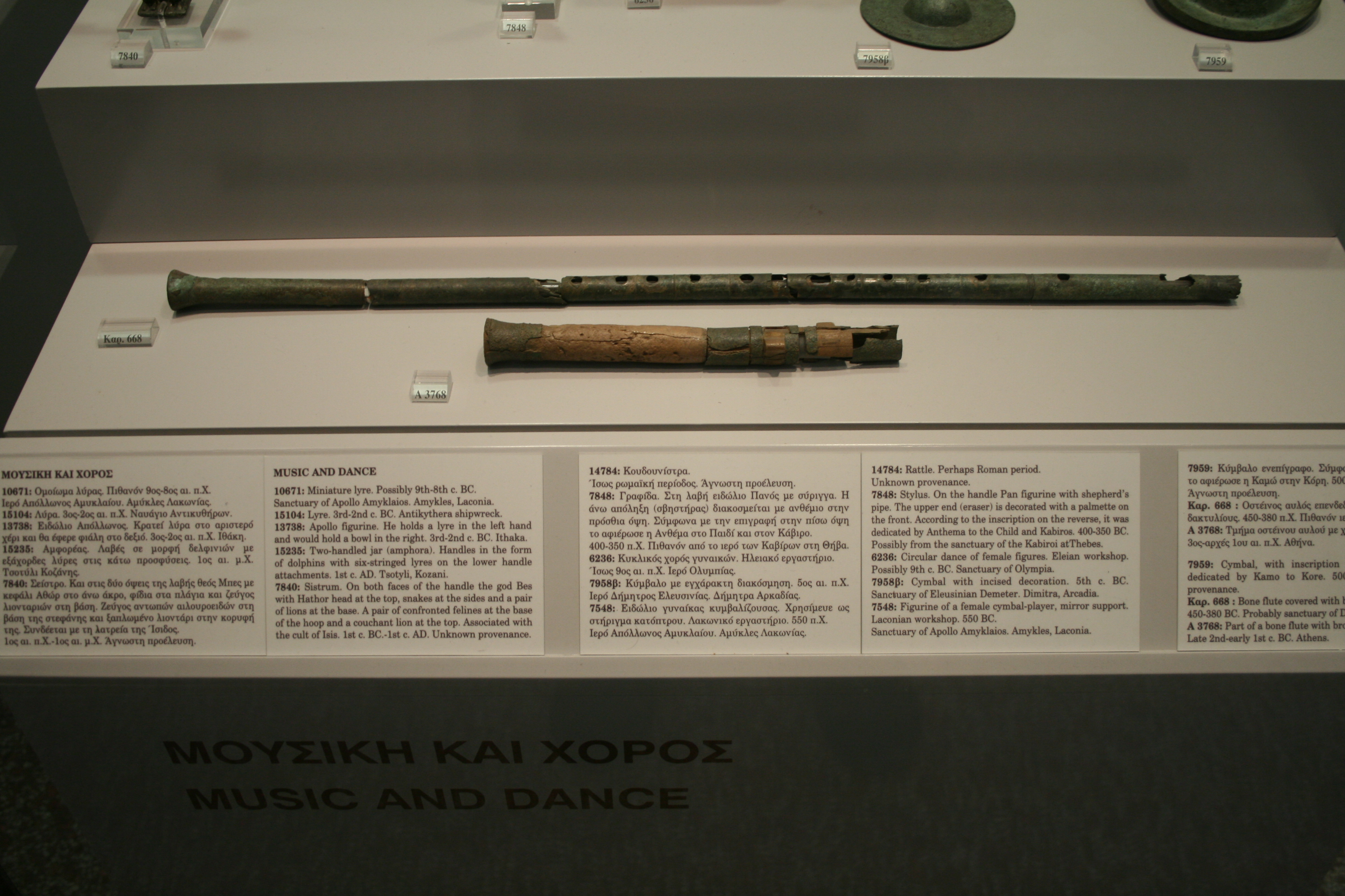 Aulos. 5th Century b.C. Archeological Museum. Athens.